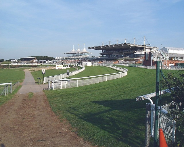 Goodwood Racecourse. A 'glorious' setting especially during Glorious Goodwood at the end of July.